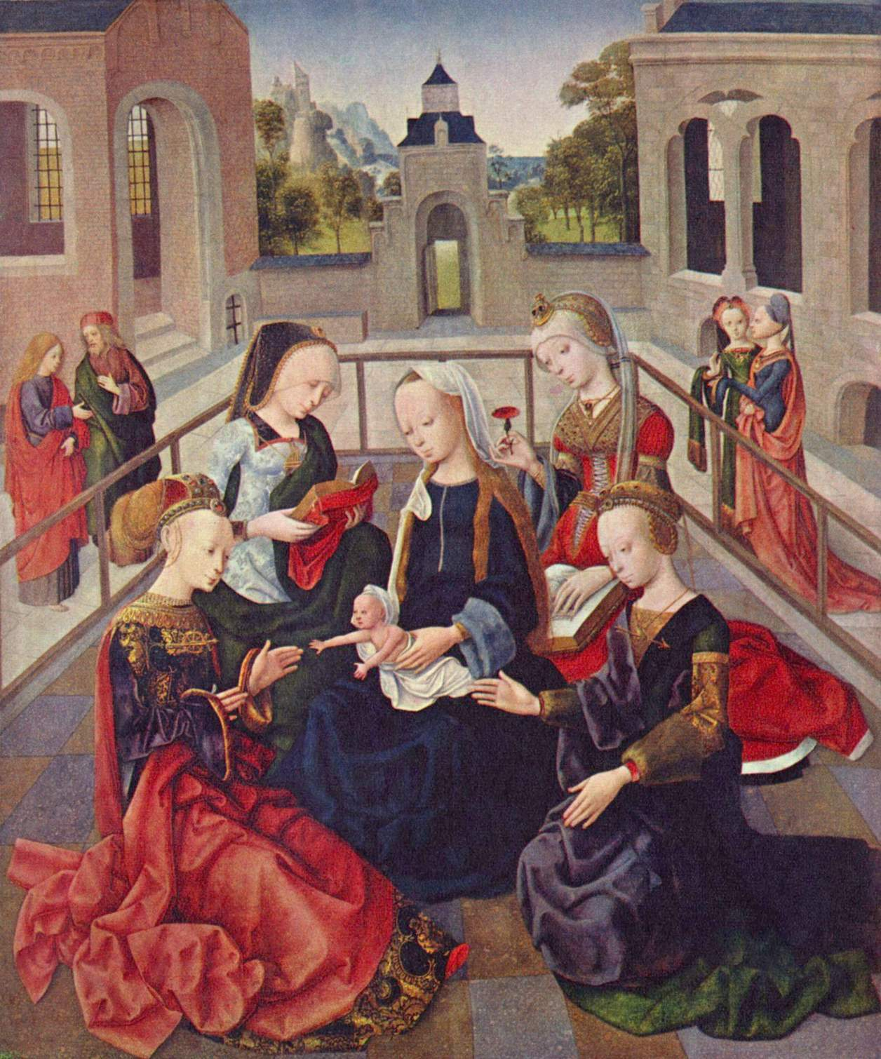 Mary with the Christ Child surrounded by four holy virgins. Saint Catherine (bottom left) is wearing a chest brooch in the shape of a wheel and a sword. Saint Cecilia (top left) is holding a book and wears a necklace with an organ-shaped pendant. Saint Barbara (top right), in red, holds a flower and wears a miniature tower on her necklace. Saint Ursula (bottom right), with braided hair, wears a necklace with heart and arrow. They are sitting in a enclosed courtyard, possibly of a monastery. Outside the enclosure, on the left, two men, possibly Saints John and James, are standing. On the right two women, probably Saint Mary Magdelene and Margaret.